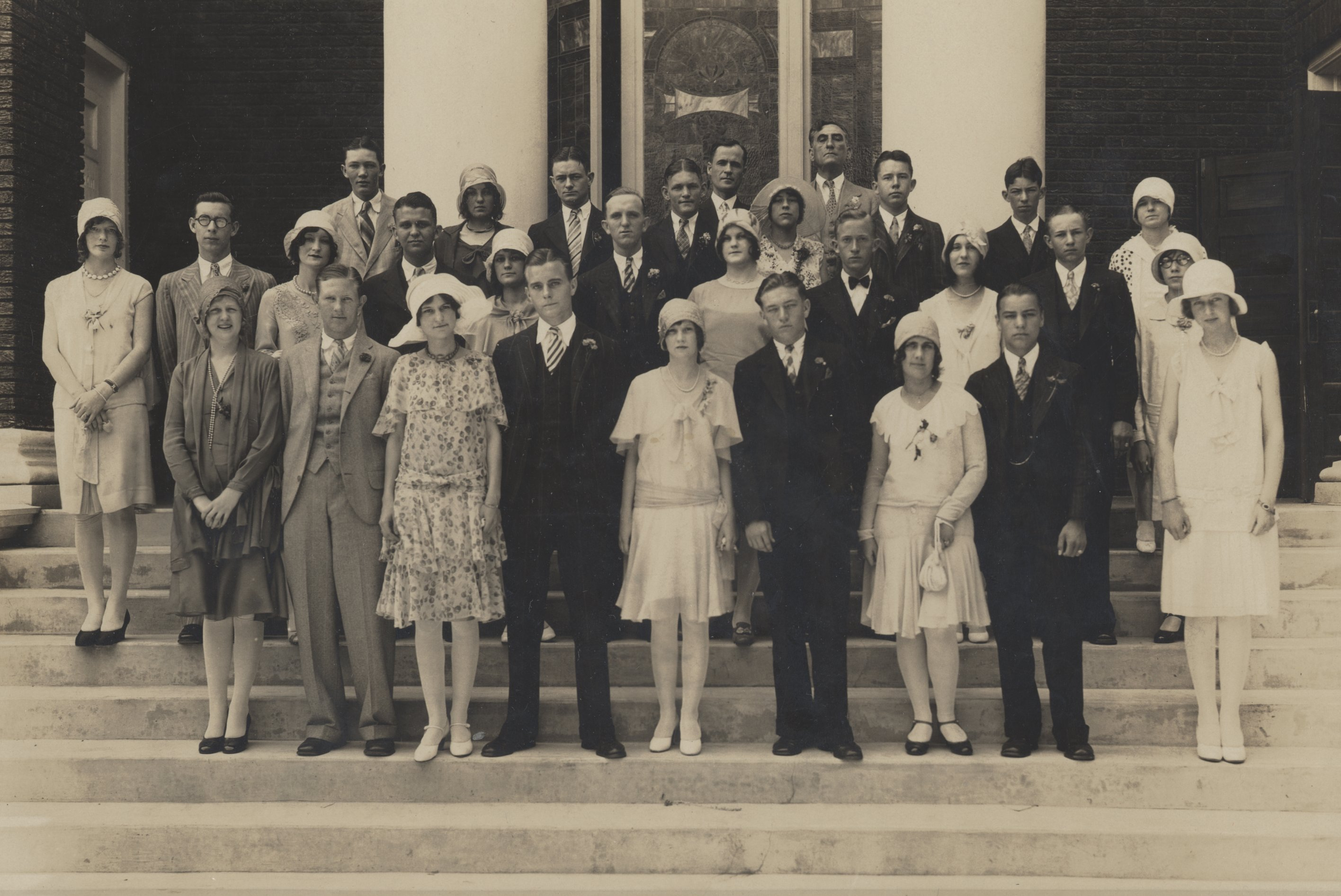 Photograph of the Auburn High School class of 1929.